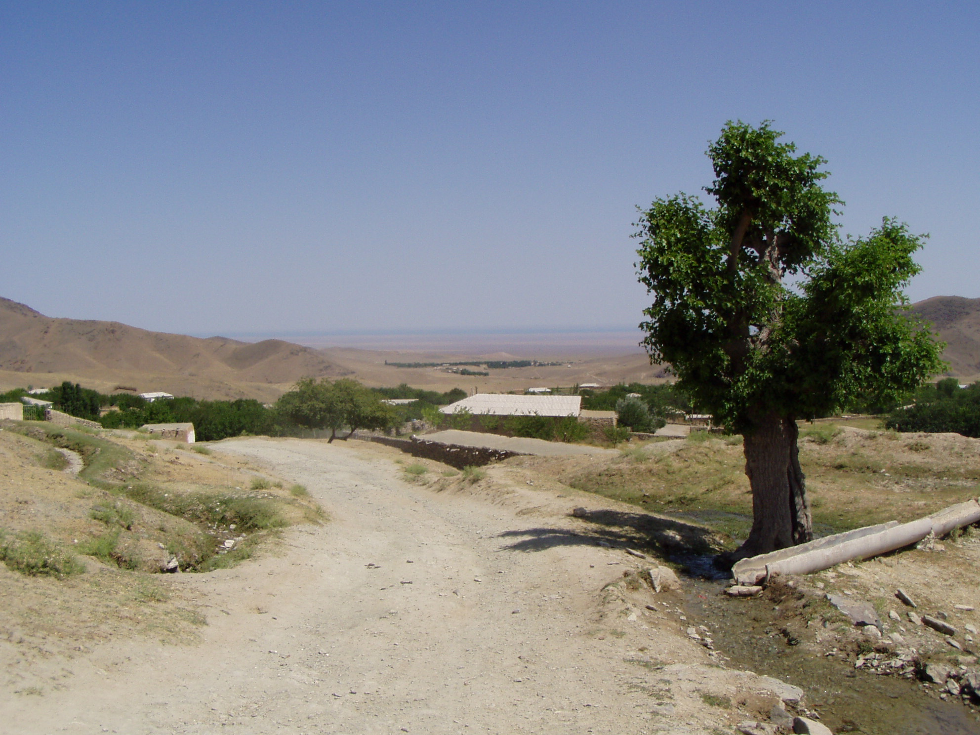 Biosphere Reservation Nuratau Mountains (Uzbekistan)